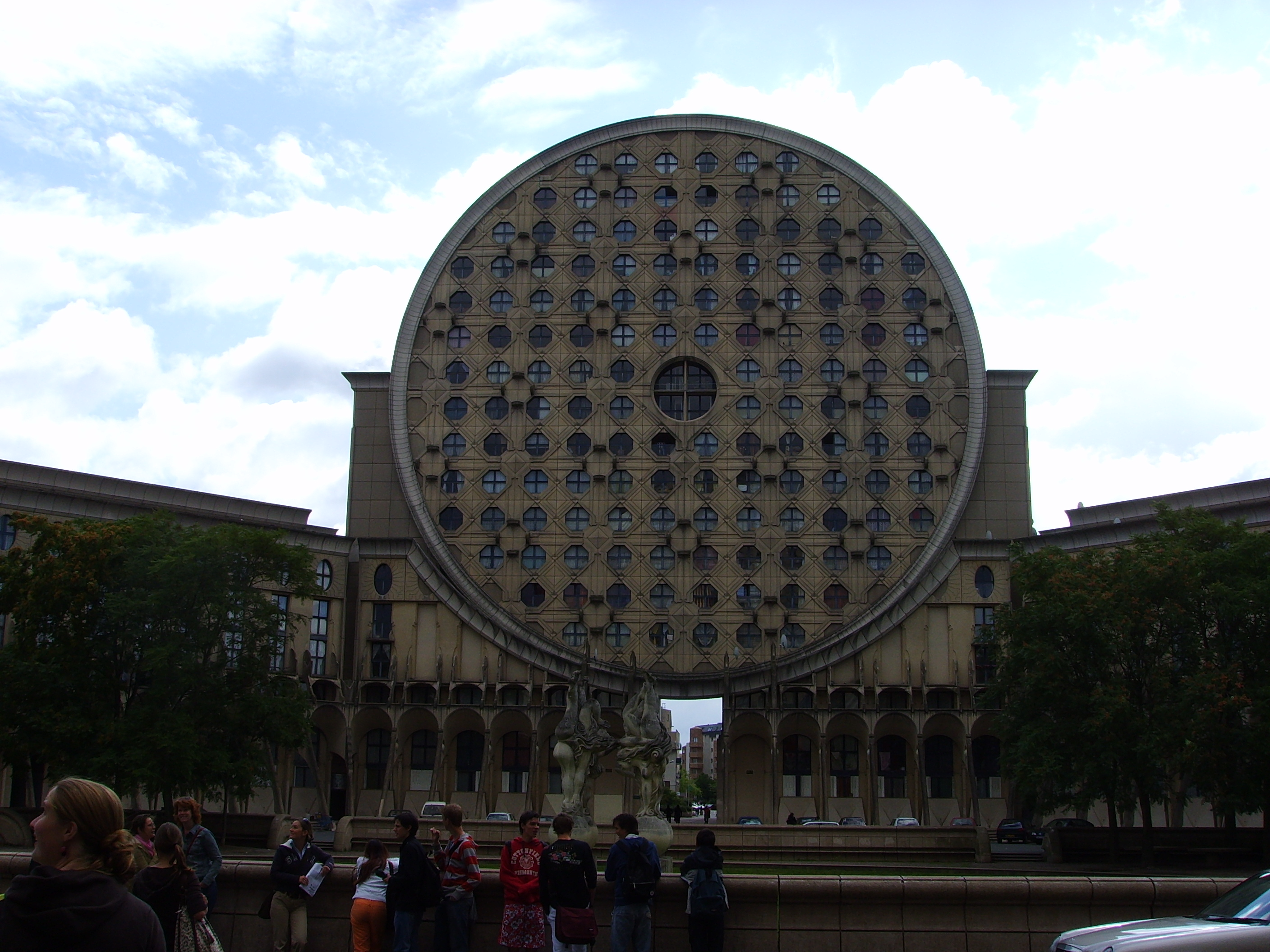 'Camembert' appartment in Noisy-le-Grand, near Paris